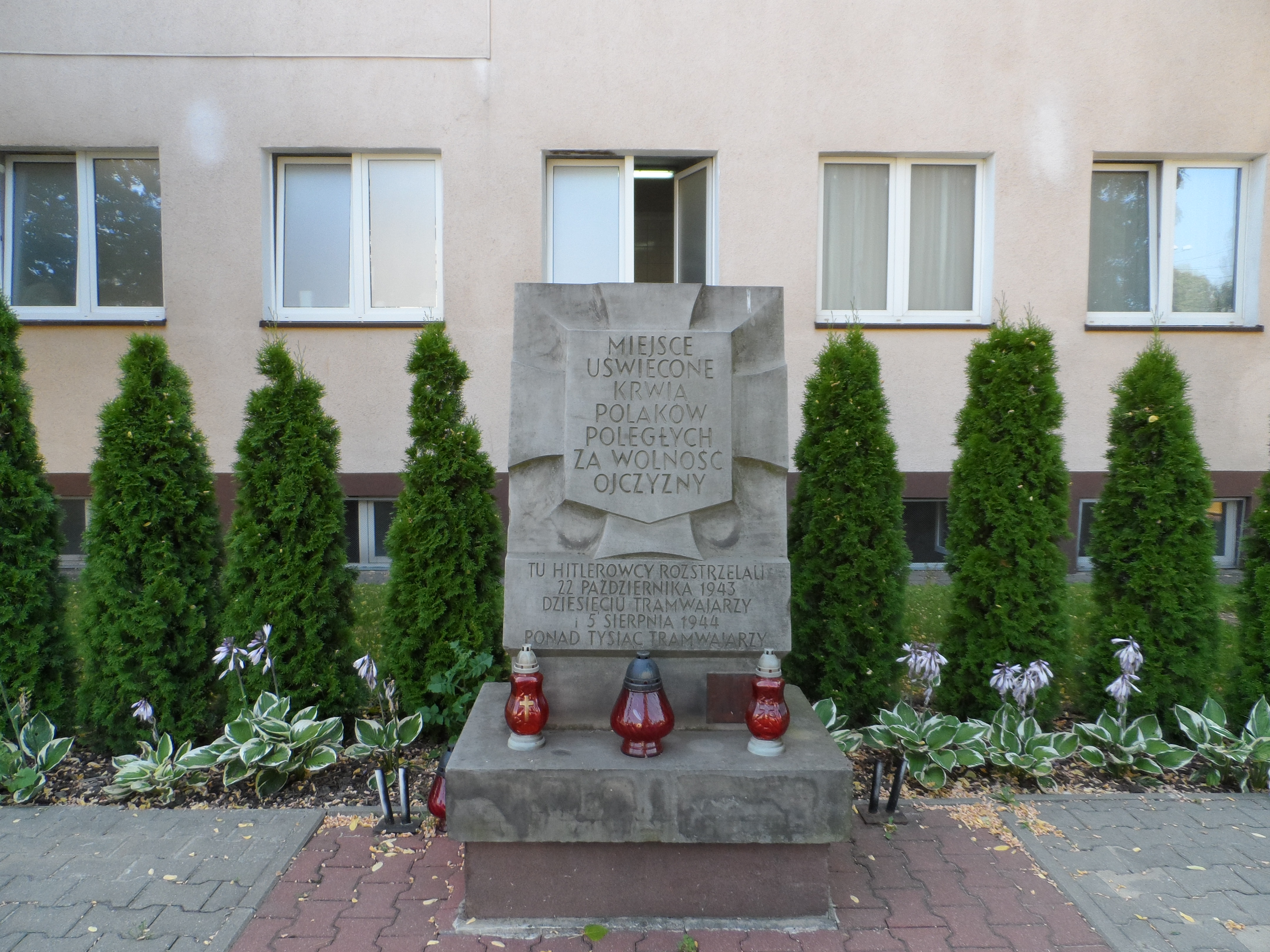 Place of National Memory at 2 Młynarska Street in Warsaw (Tram depot Wola). This plaque commemorates about 10 Polish hostages executed in this place by German occupants on 22nd October 1943 and almost 1000 Polish civilians murdered there by German troops during so-called Wola Massacre (5th August 1944).